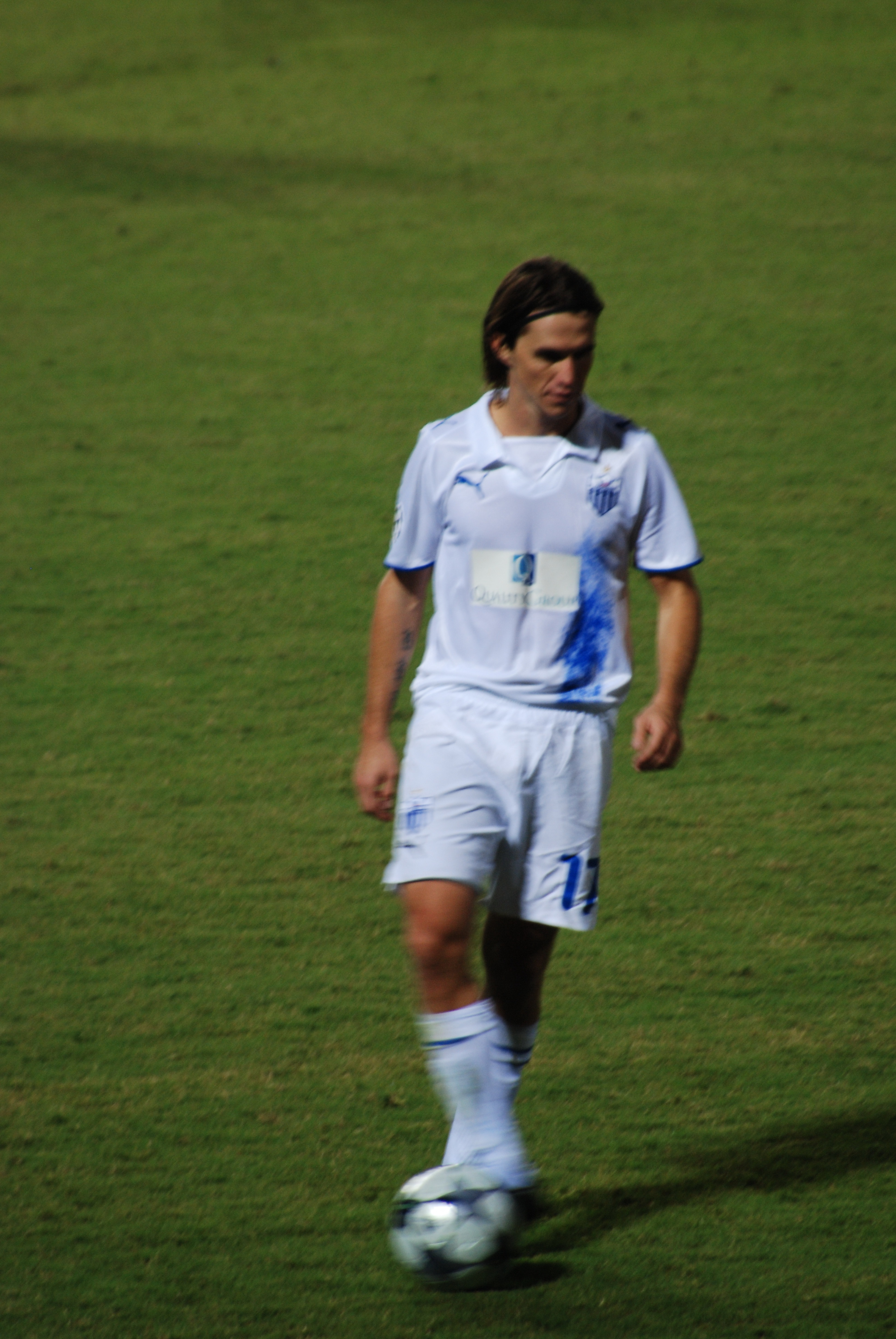 Savio.